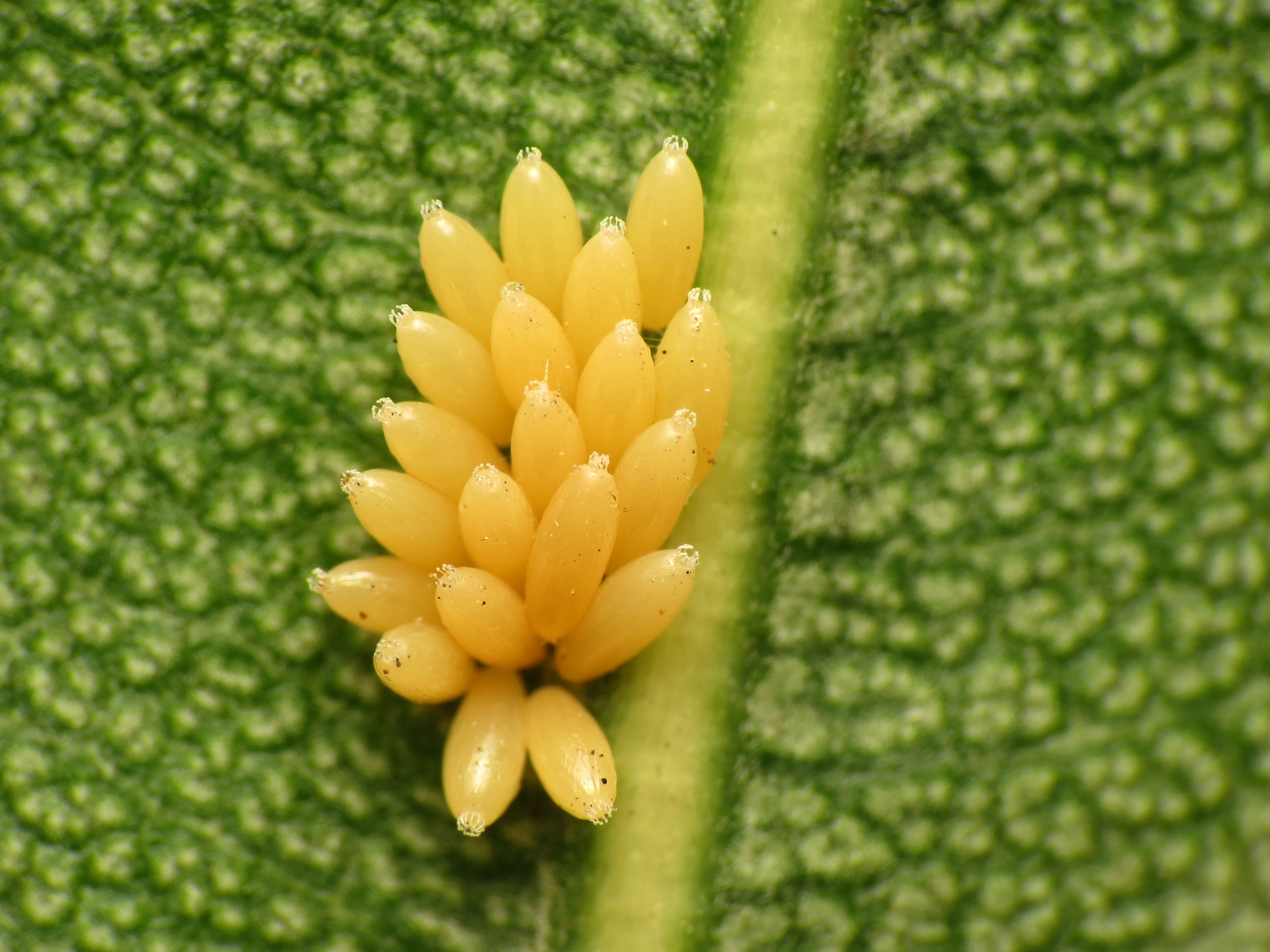 Caenocoris nerii eggs on Nerium oleander. Els Poblets, Alicante, Spain.